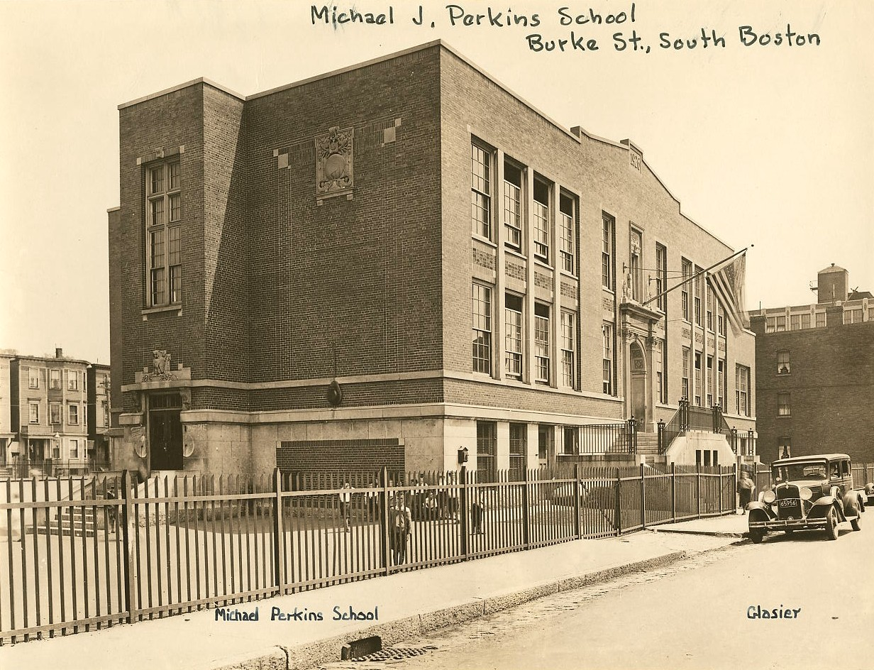 Michael J. Perkins School (Exterior)